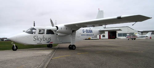 Skybus Norman Britten Islander Aircraft